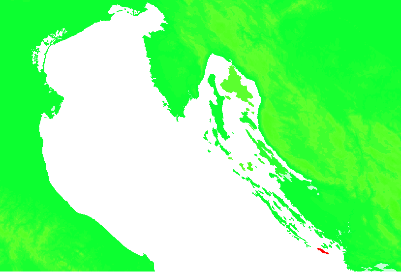 Island of Croatia Croatia - Zirje.PNG